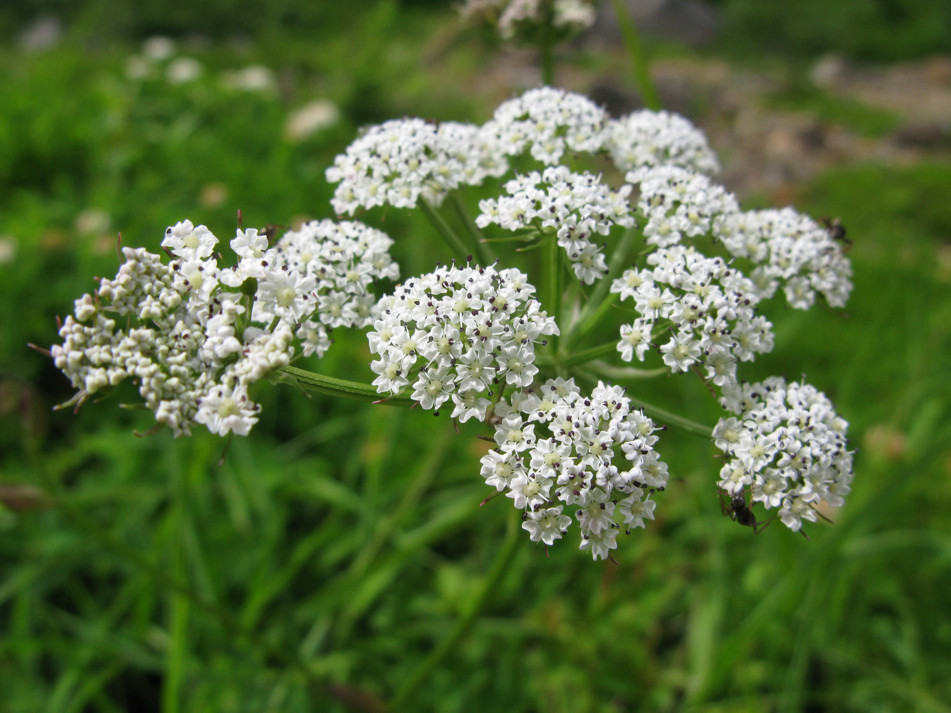 Tilingia ajanensis, Mount Nasu, Tochigi pref., Japan